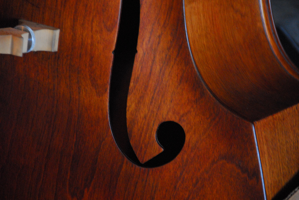 1939 Gretsch Tone King (made by Kay) upright bass